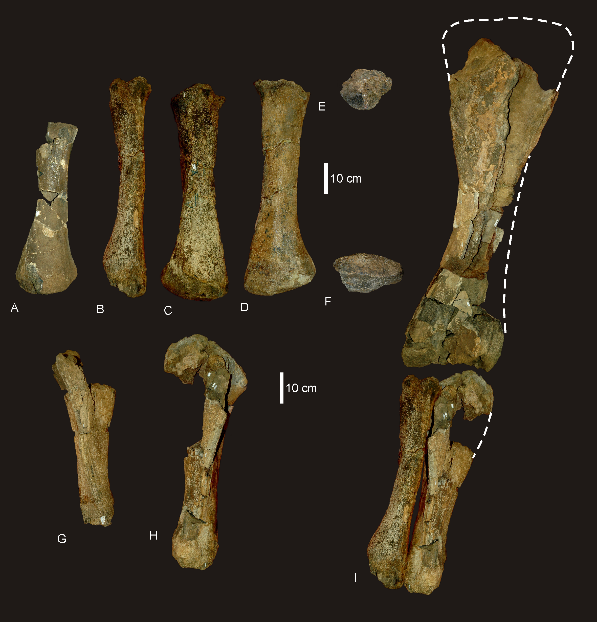 Radii and ulnae of Wintonotitan wattsi. Right radius in anterior (A) view. Left radius in medial (B), posterior (C), anterior (D), proximal (E) and distal (F) views. Left ulna in antero-lateral view (G). Right ulna in antero-lateral view (H). Reconstructed left humerus, ulna (reversed H and combined with G) and radius (B) in antero-lateral view. Dashed lines represent suggested missing areas.